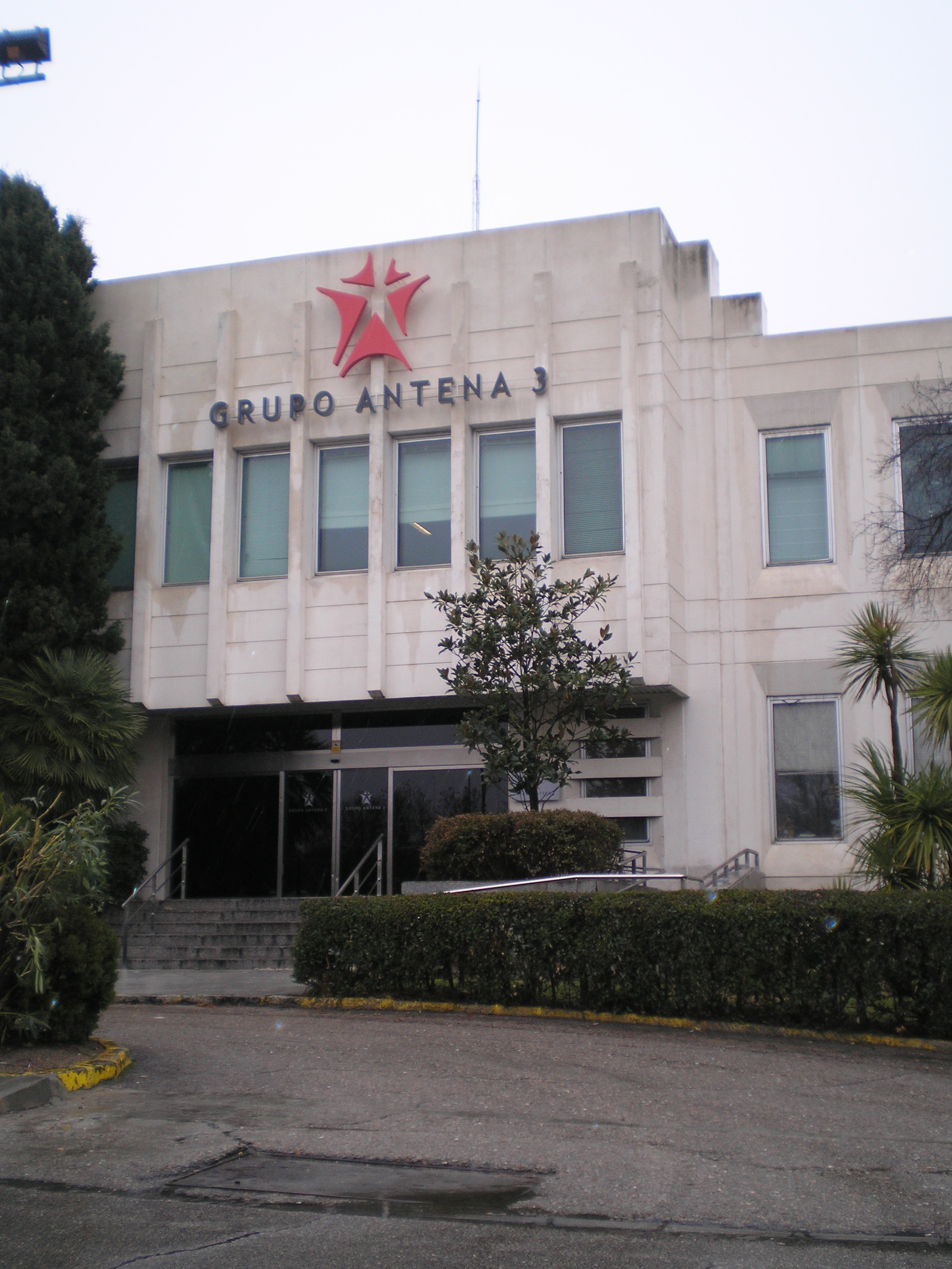 Grupo Antena 3 headquarters in San Sebastián de los Reyes, Madrid.